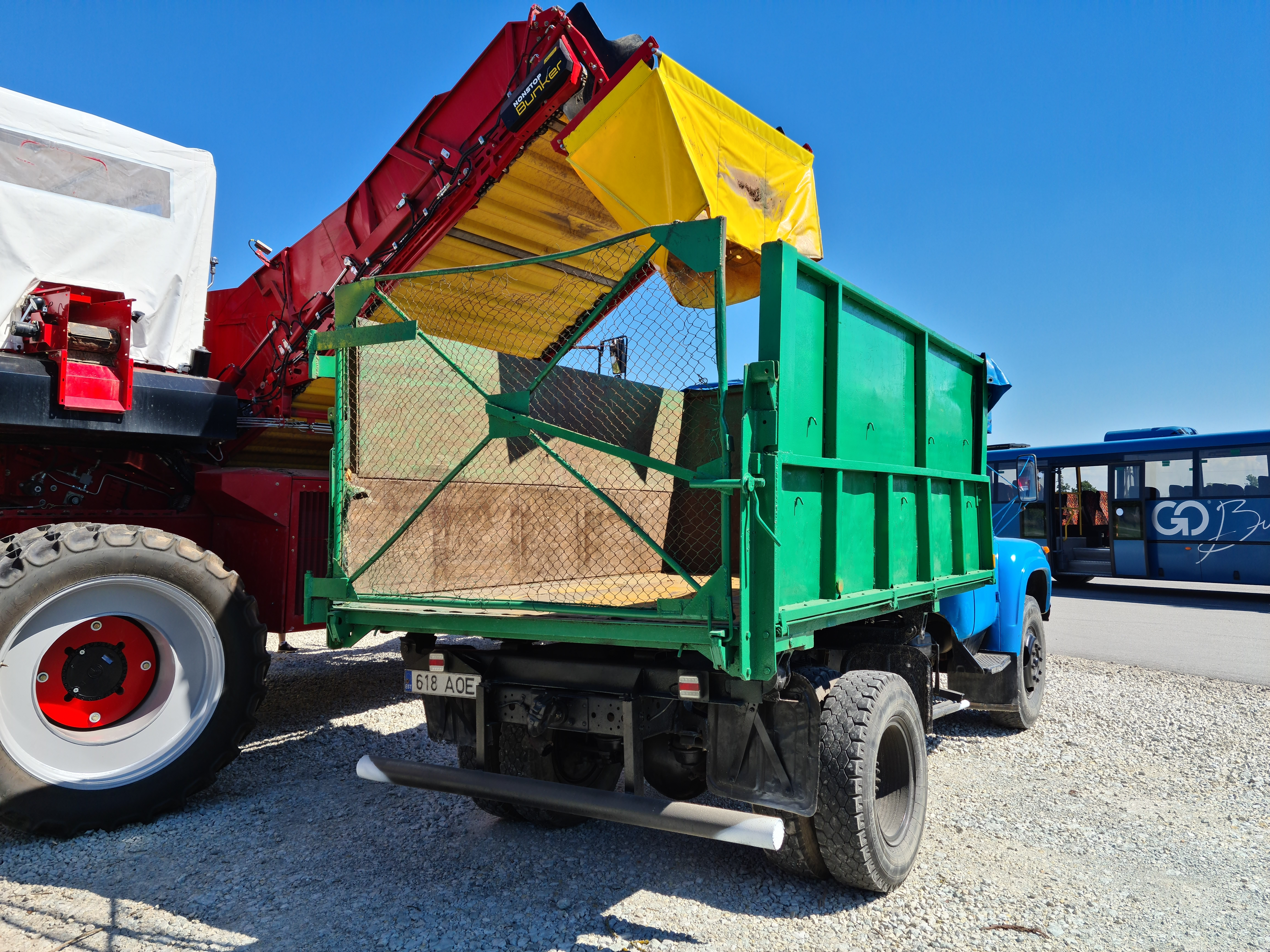 Rear view over of a ZiL-130 dump truck.